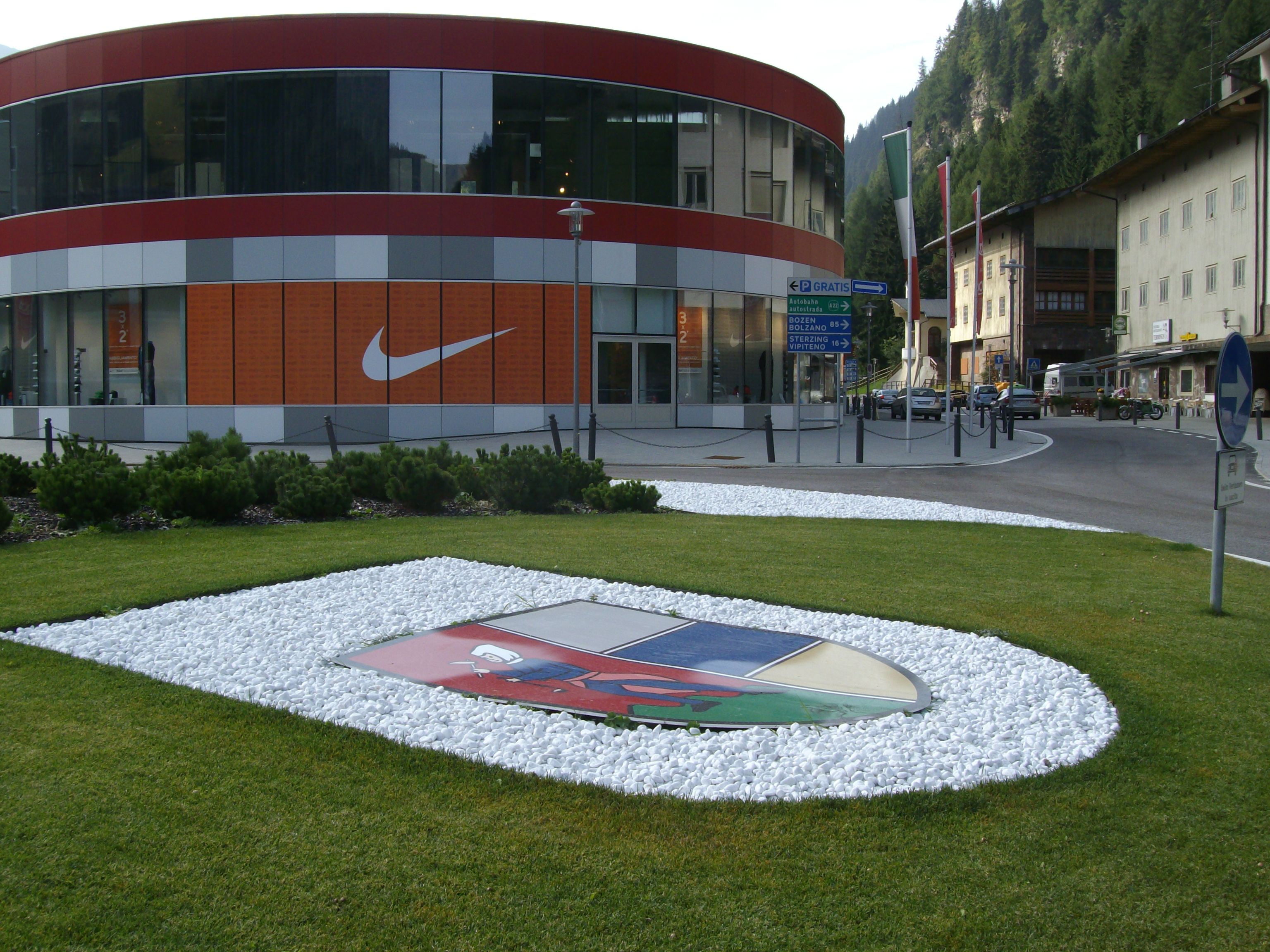 Italy, South Tyrol, Brenner Pass. The new shopping centre Design Outlet Brennero built on the place of the old italian Customs, the closed Police station in the background.